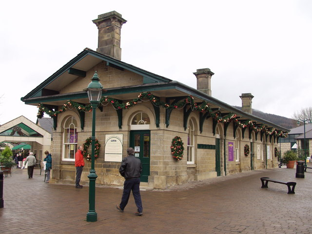 Rowsley Central Railway Station